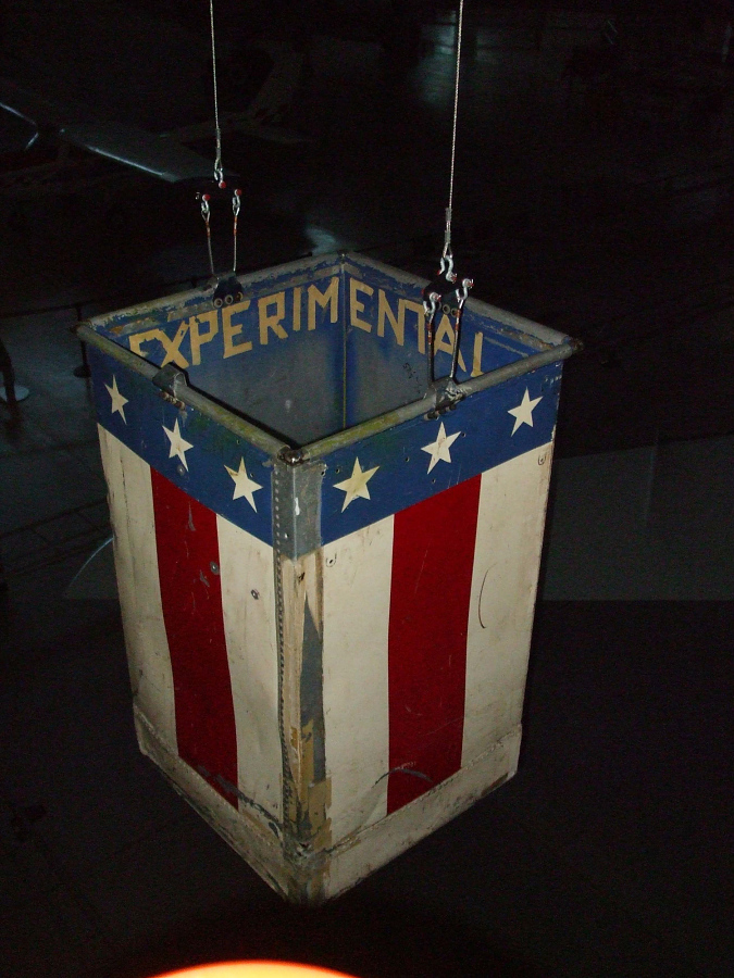 On August 17, 1959, balloonist Donald L. Piccard flew this red, white and blue balloon basket at a centennial commemoration of John Wise's Jupiter balloon flight from Lafayette, Indiana. The Wise flight was the first time that stamped letters, which had passed through a post office, were flown through the air. On July 19, 1961, Piccard launched from the Fairbault, Minnesota airport and rode the same basket to an altitude of 34,642 feet, a world record altitude for gas balloons of this class. Don Piccard, a pioneer of post-war gas and hot air ballooning, and a founder of the Balloon Club of America, played a critical role in the development and popularization of modern sport ballooning. He is a nephew of Auguste Piccard -- the inventor of both the pressurized balloon gondola and the bathyscaph for undersea exploration and the first man to enter the stratosphere. Don Piccard's mother and father, Jean and Jeanette Piccard, introduced Americans to high altitude ballooning in the 1930s. His cousin Jacques, Auguste's son, was one of the first two men to descend to the deepest spot in the world oceans. Jacques' son Bertrand Piccard was one of the first two men to fly a balloon around the world, non-stop.